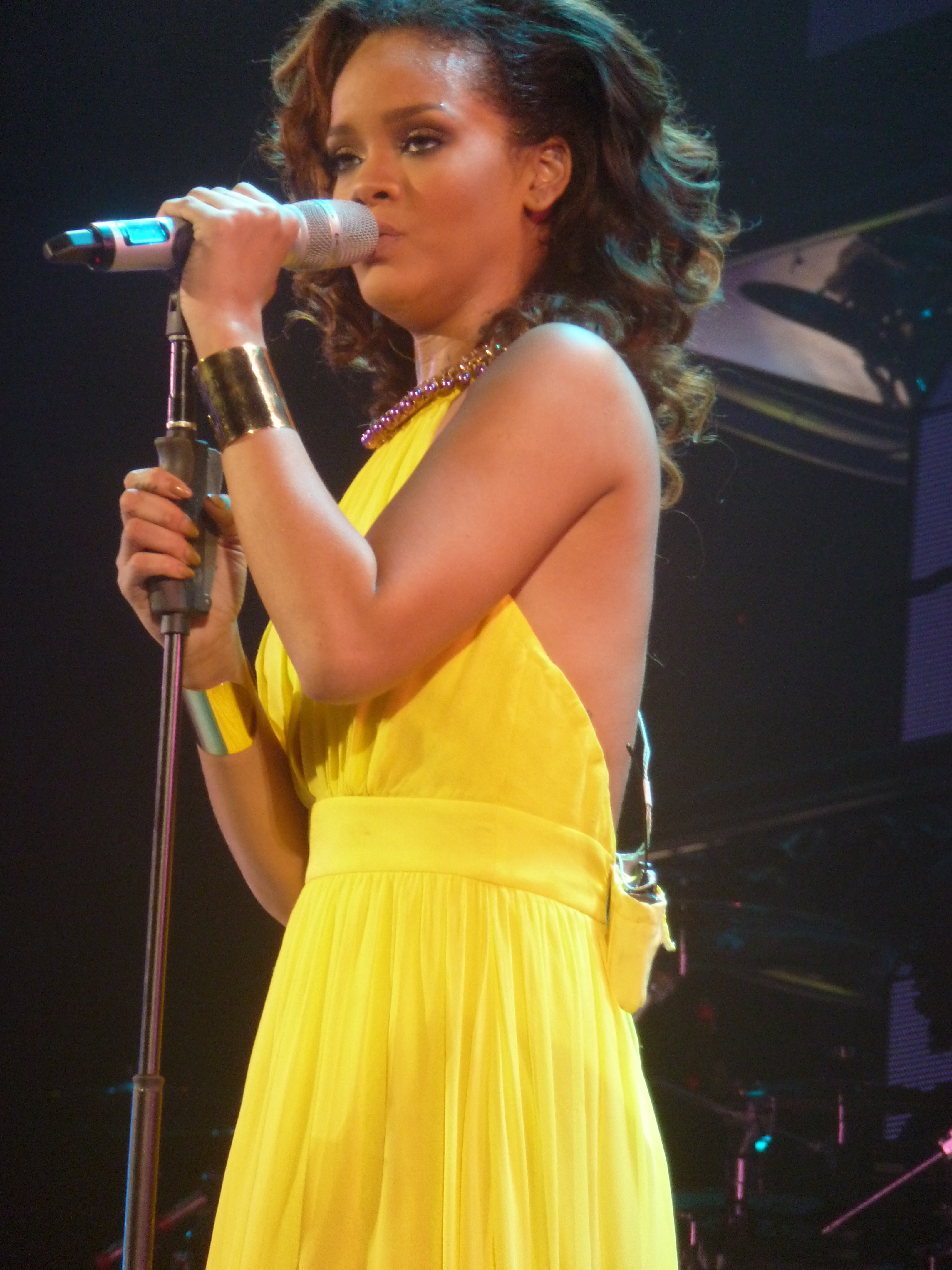 Live In Paris - Paris Bercy 2011